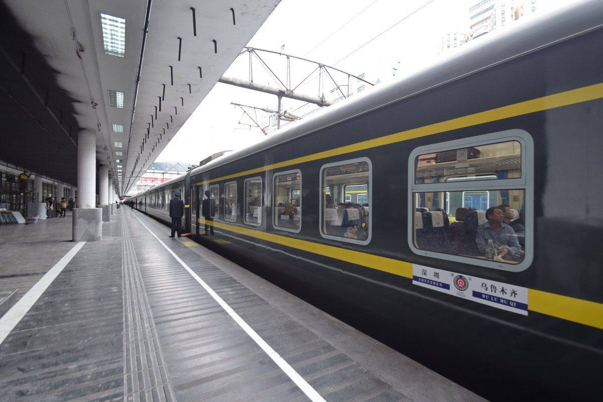 Z230/231 25T Train at Shenzhen Railway Station